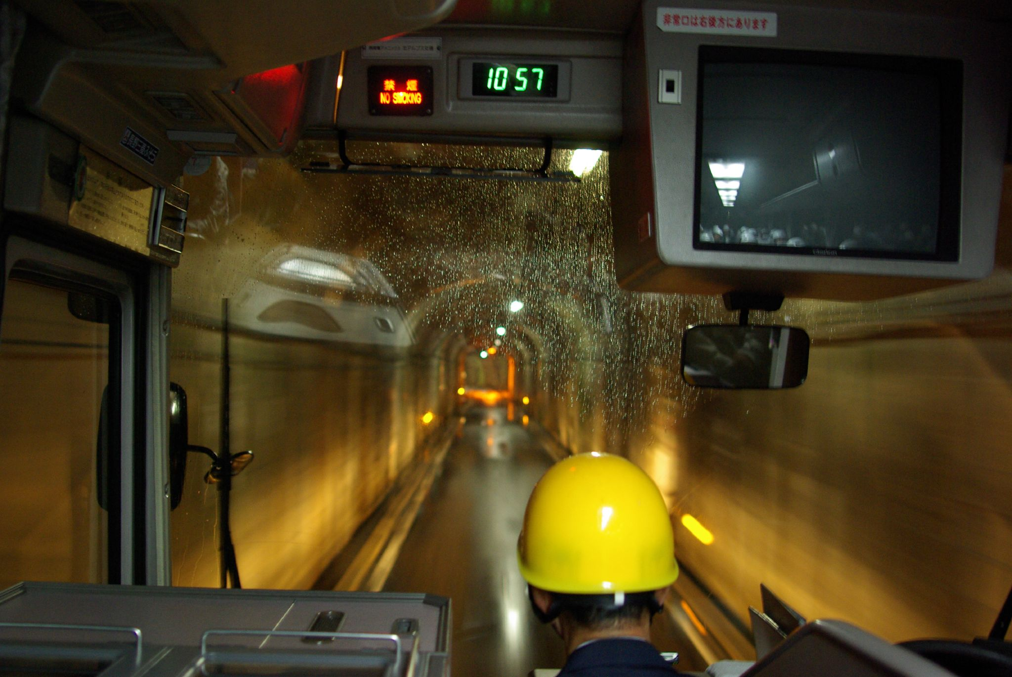 Looking out the front of a bus inside the Kurobe Tunnel in Toyama, Japan